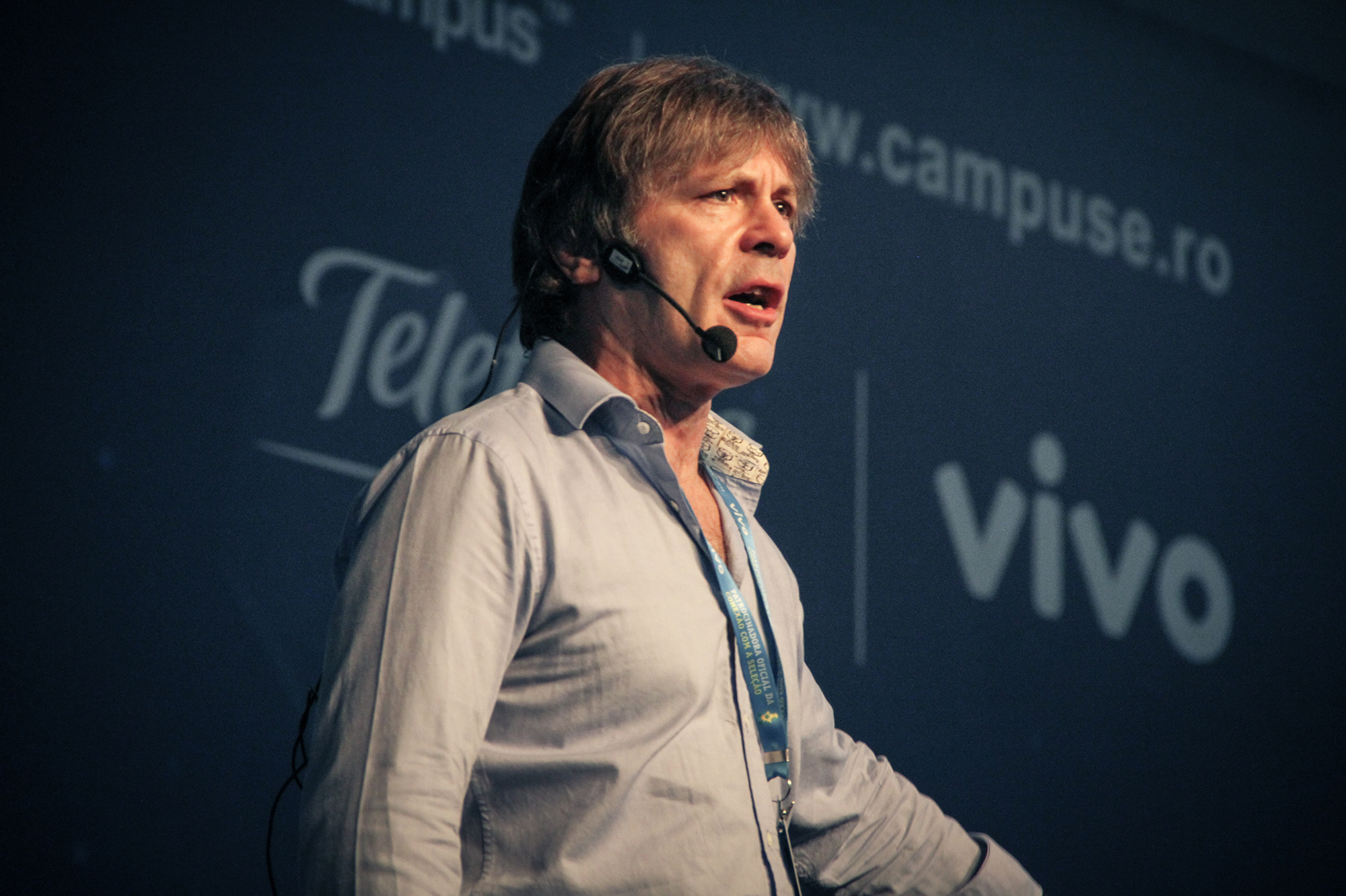 Bruce Dickinson at Campus Party